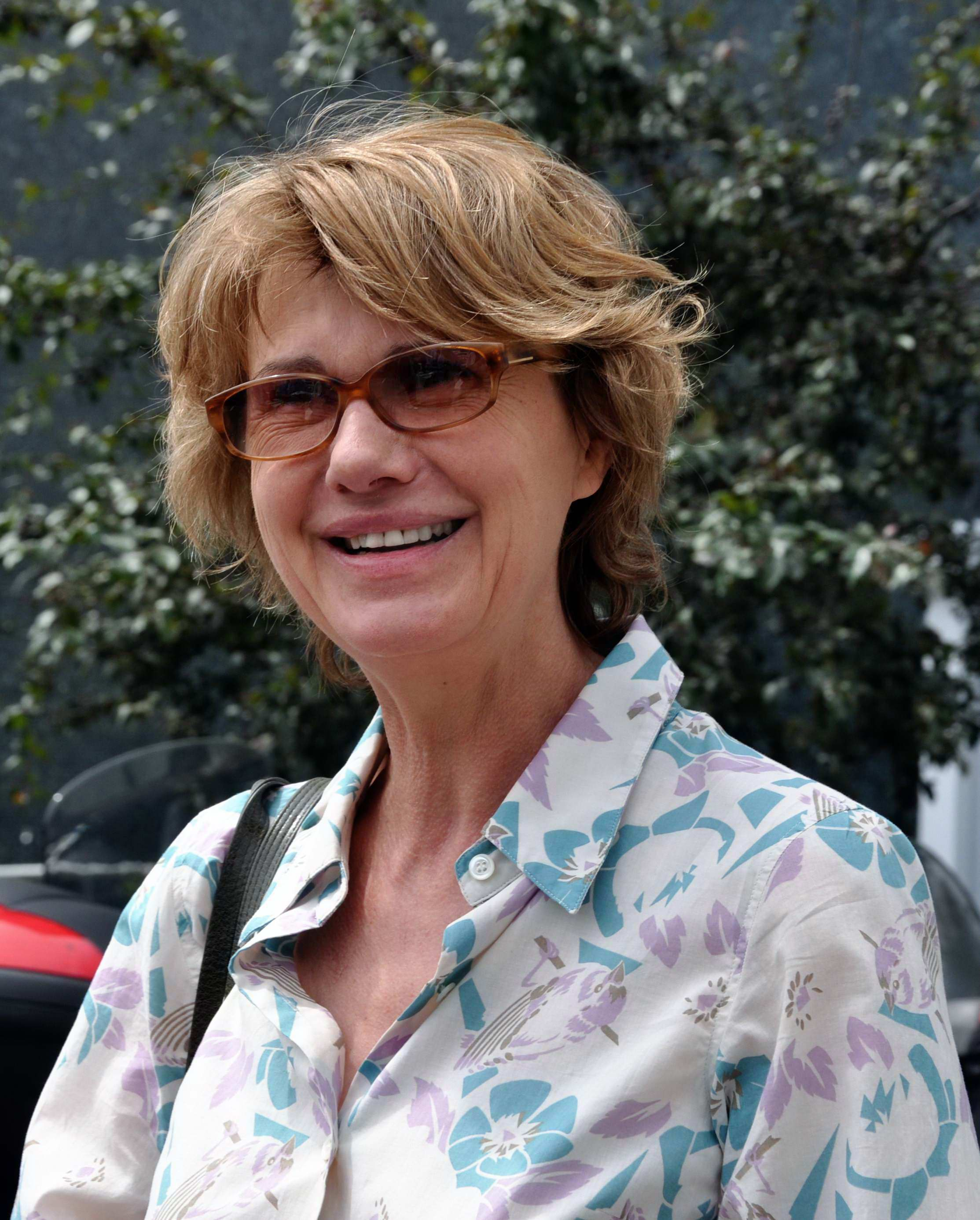 Miou Miou